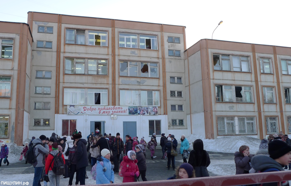 School damaged by the shock wave and the evacuation of school